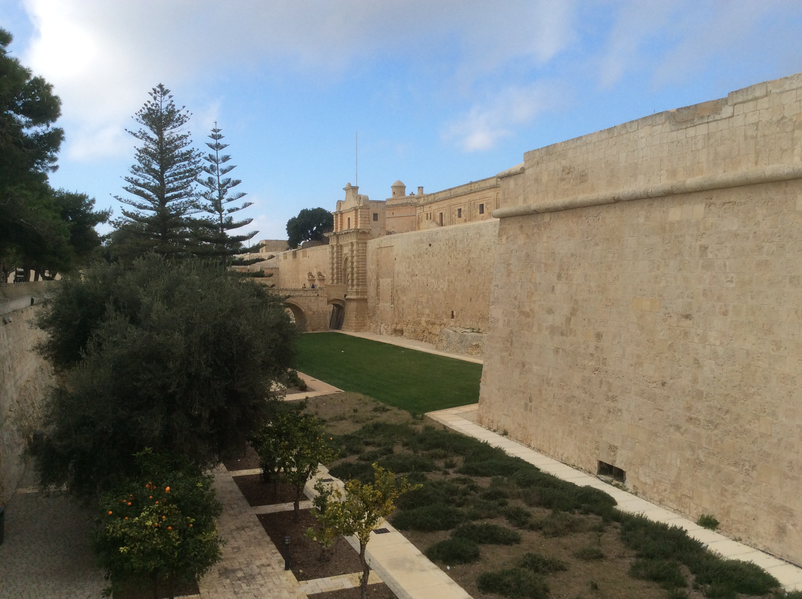 Mdina fortifications